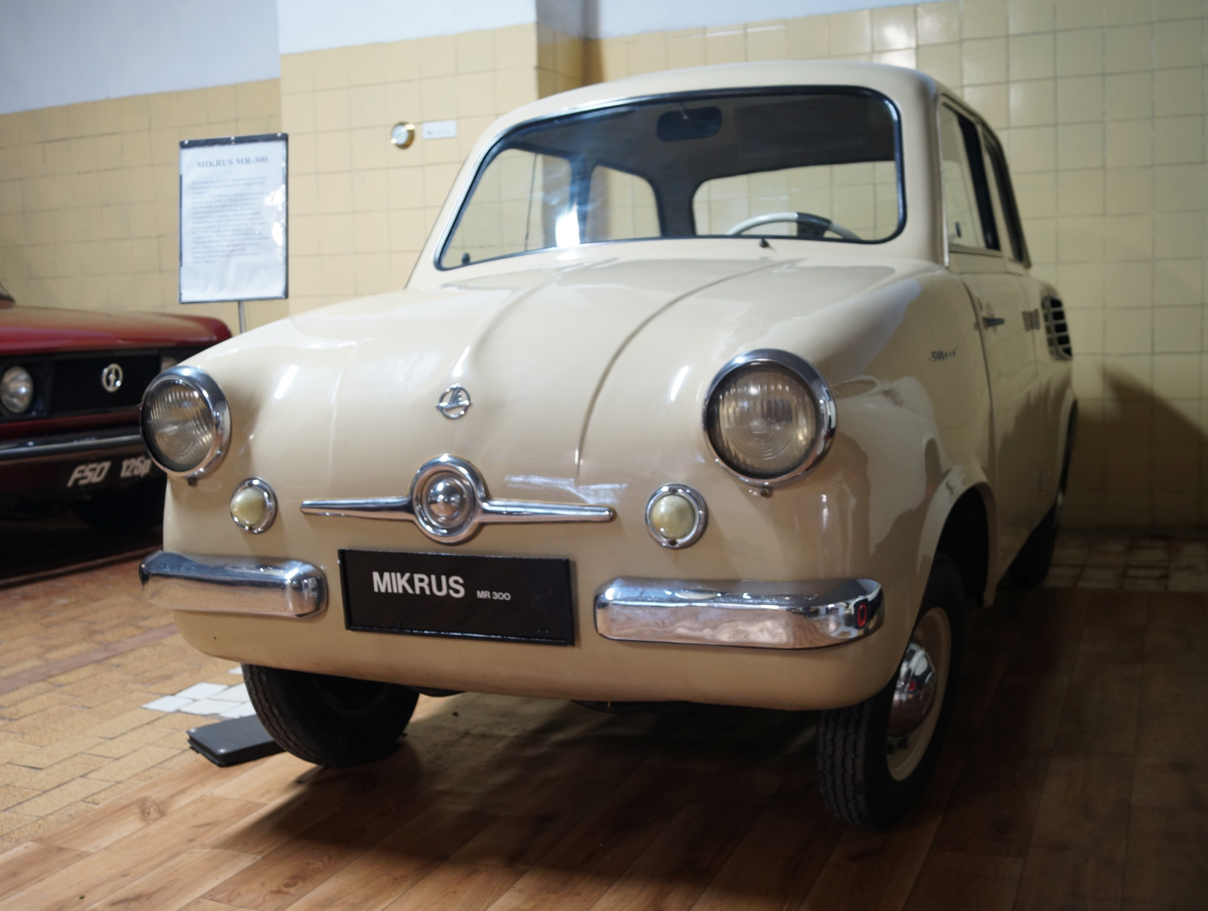 The making of this document was supported by Wikimedia Polska Association, within Wikigrant no. WG 2016-18. English | polski | +/− Mikrus MR-300 w Muzeum w Chlewiskach